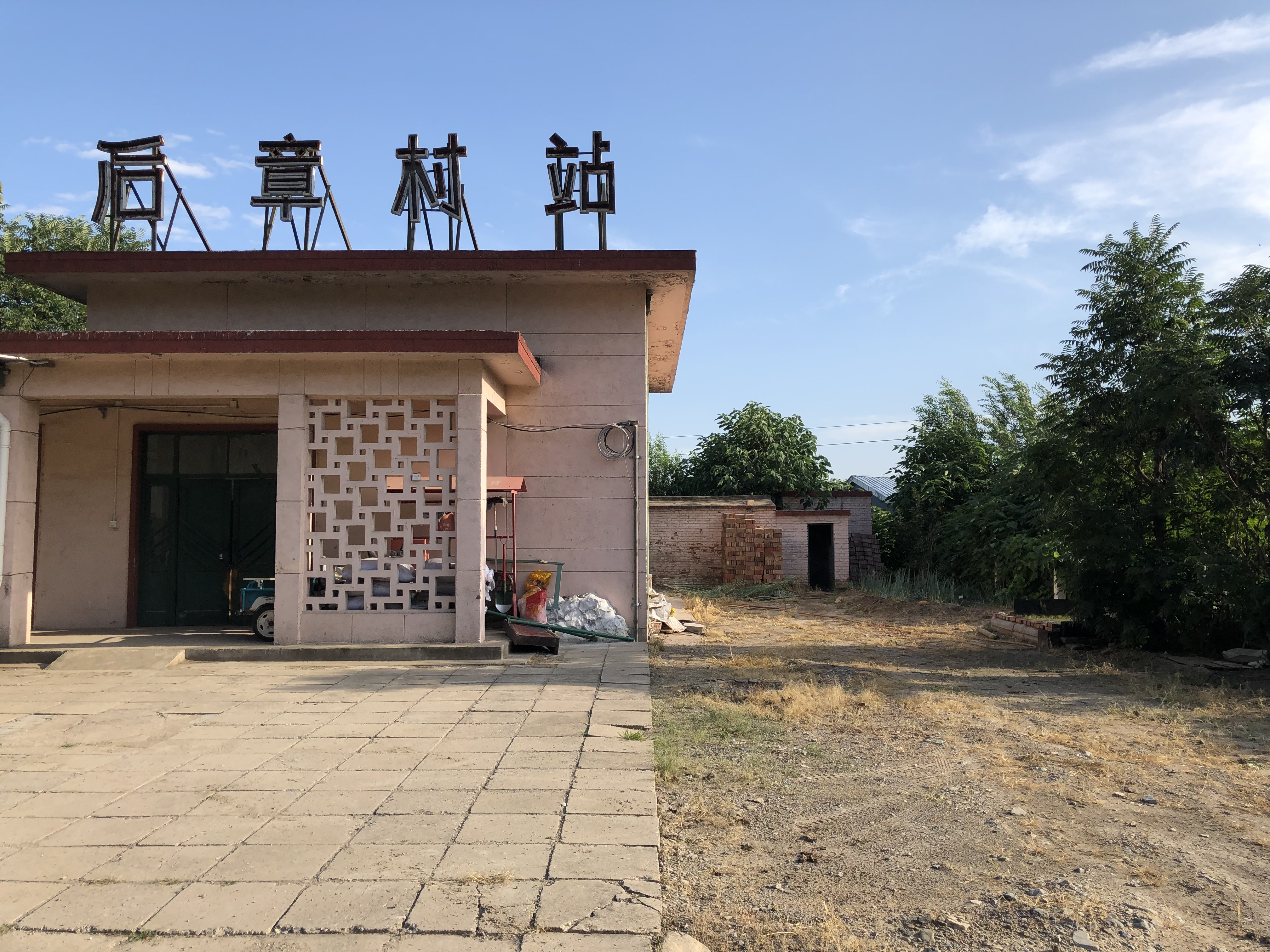 Houzhangcun Railway Station